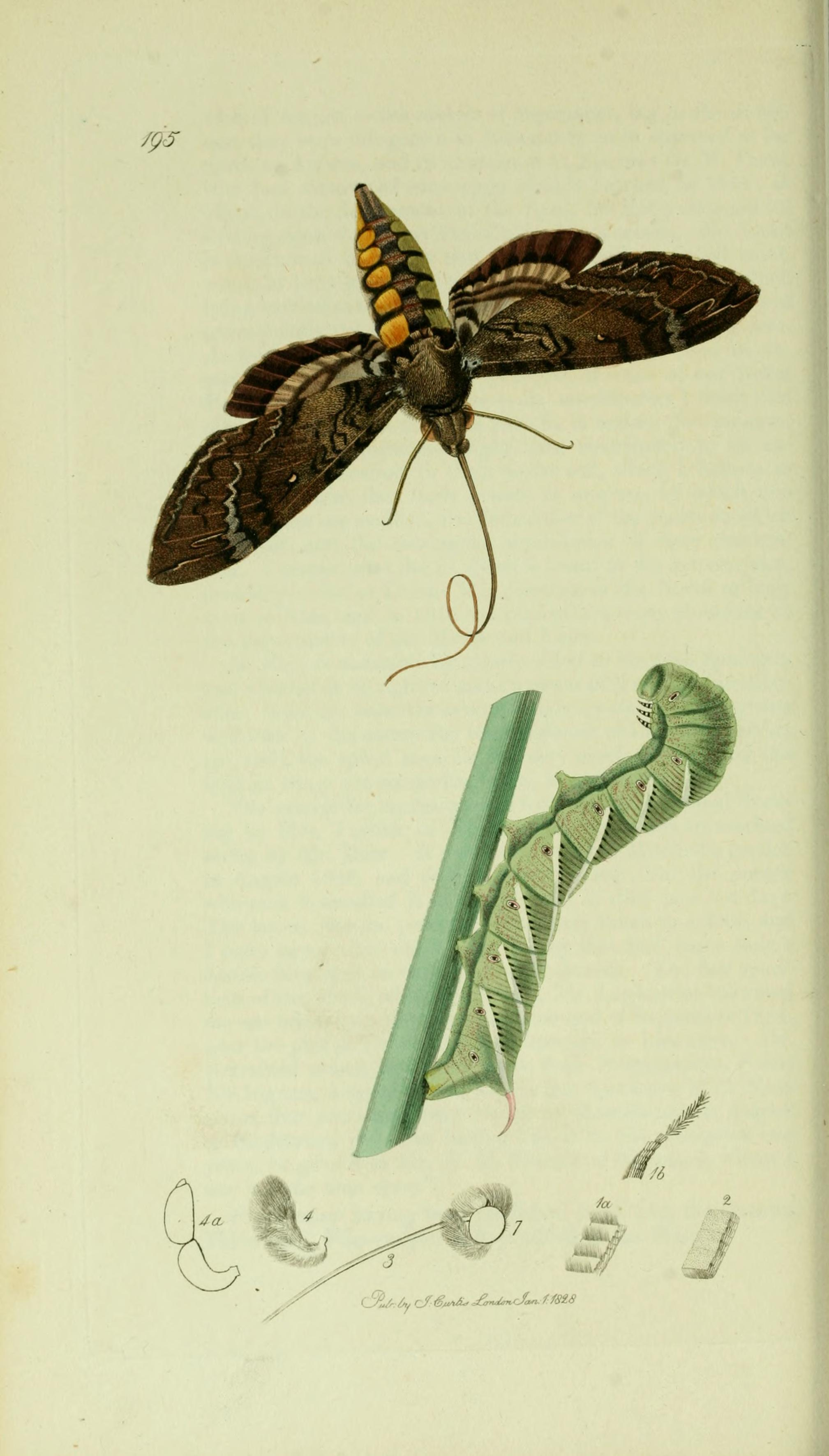 An illustration from British Entomology by John Curtis. Sphinx carolina (Tobacco Hawk-moth: only British record of a North American species?).